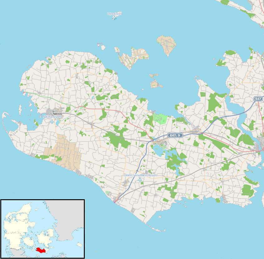 Map showing Lolland Island, Denmark for pin Geographic limits of the map: N: 55.063° N S: 54.538° N W: 10.948° E E: 11.875° E